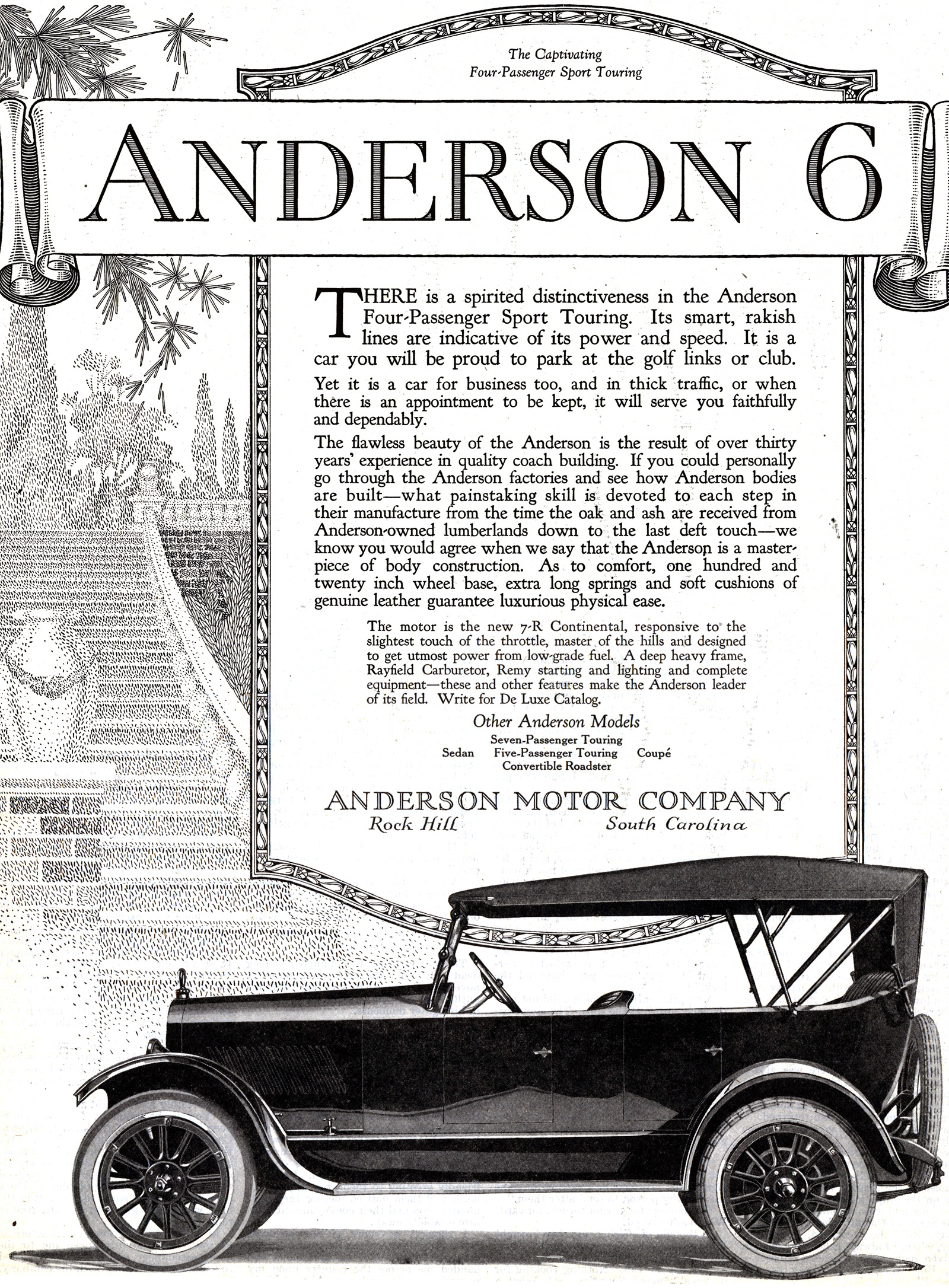 Until I perused the May 8, 1920 Saturday Evening Post, I'd never heard of the Anderson auto, so I turned to Wikipedia and was educated.